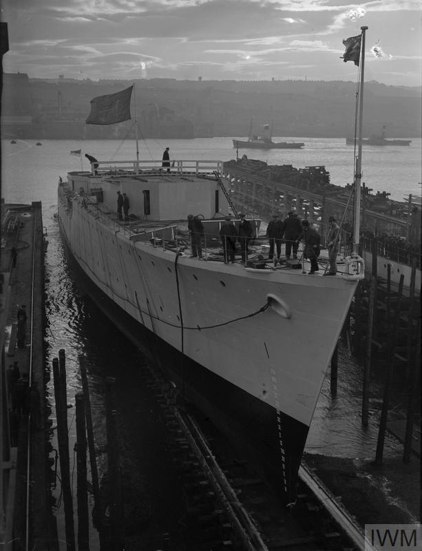 The hull of HMCS Athabaskan being launched from the slipway.